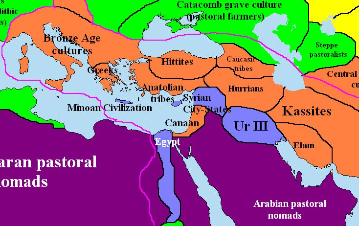 Near East and Mediterranean in 2000 BCE Derived from File:World 2000 BCE.png